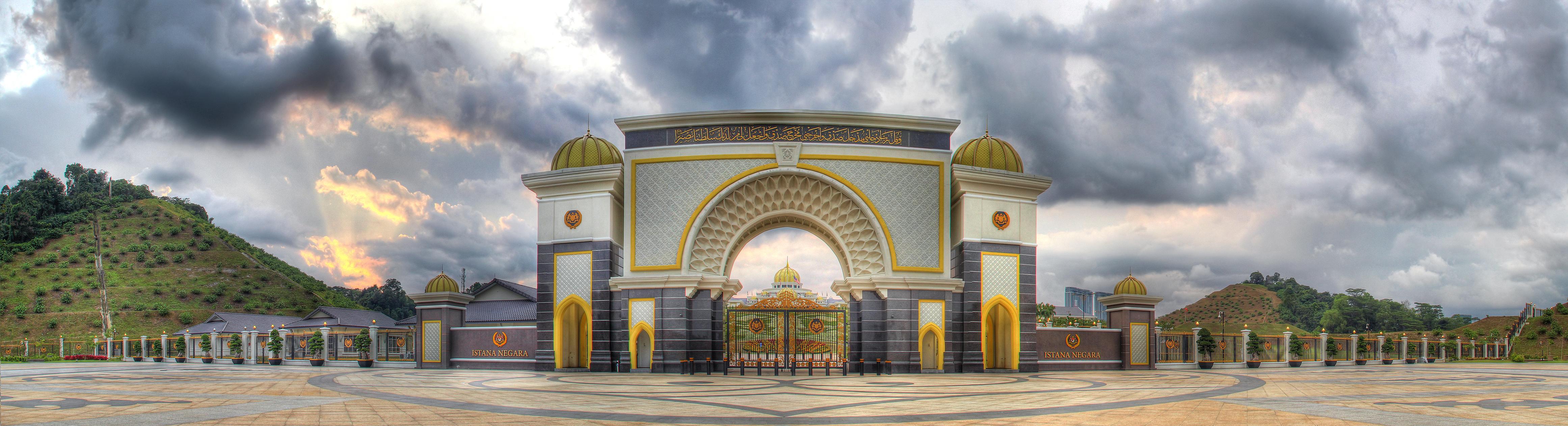 KUALA LUMPUR – Generally, the Istana Negara is the official residence of DYMM Yang di-Pertuan Agong and DYMM Raja Permaisuri Agong who are symbols of regalia and the country’s highest ranked leader in the constitutional monarchy system in this country. While the ceremony to raise the Yang di-Pertuan Agong’s private flag was held on November 15, 2011 as a symbol that the Istana Negara, Jalan Duta has officially become the National Palace of this sovereign country. With an area of 97.65 hectares, all halls and rooms in the Istana Negara Jalan Duta was build with unique characteristics based on traditional Malay concept and splendour Islamic art works by several famous local sculptor from Terengganu and Kelantan. Estimation of construction cost is valued at RM800 million, the new Istana Negara has 22 domes where the two main large domes with betel leaves overlapping motives when at night, light effects from decorative lighting shines the domes it will create a very beautiful view.